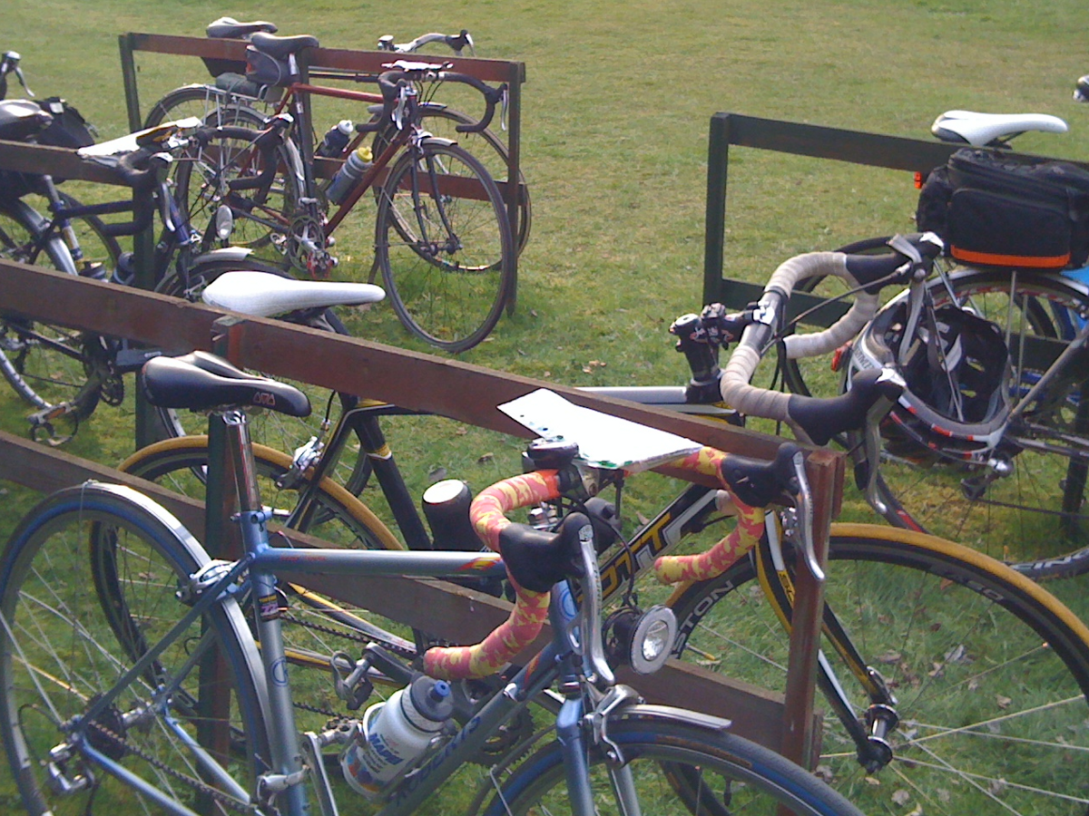 Photograph uploaded by the author showing a selection of randonneuring bikes outside the Comrades CC bungalow in Ugley, Essex, United Kingdom. The photograph was taken on Saturday 12 March during the "Up the Uts" randonnees organised by Squadra UVE on behalf of Comrades CC. Most of the cycles in the photographs are audax bikes or 'fast tourers', mid-way between a traditional British touring bike and a full-blown racer. The Parson's Cat (talk) 19:23, 16 July 2011 (UTC)